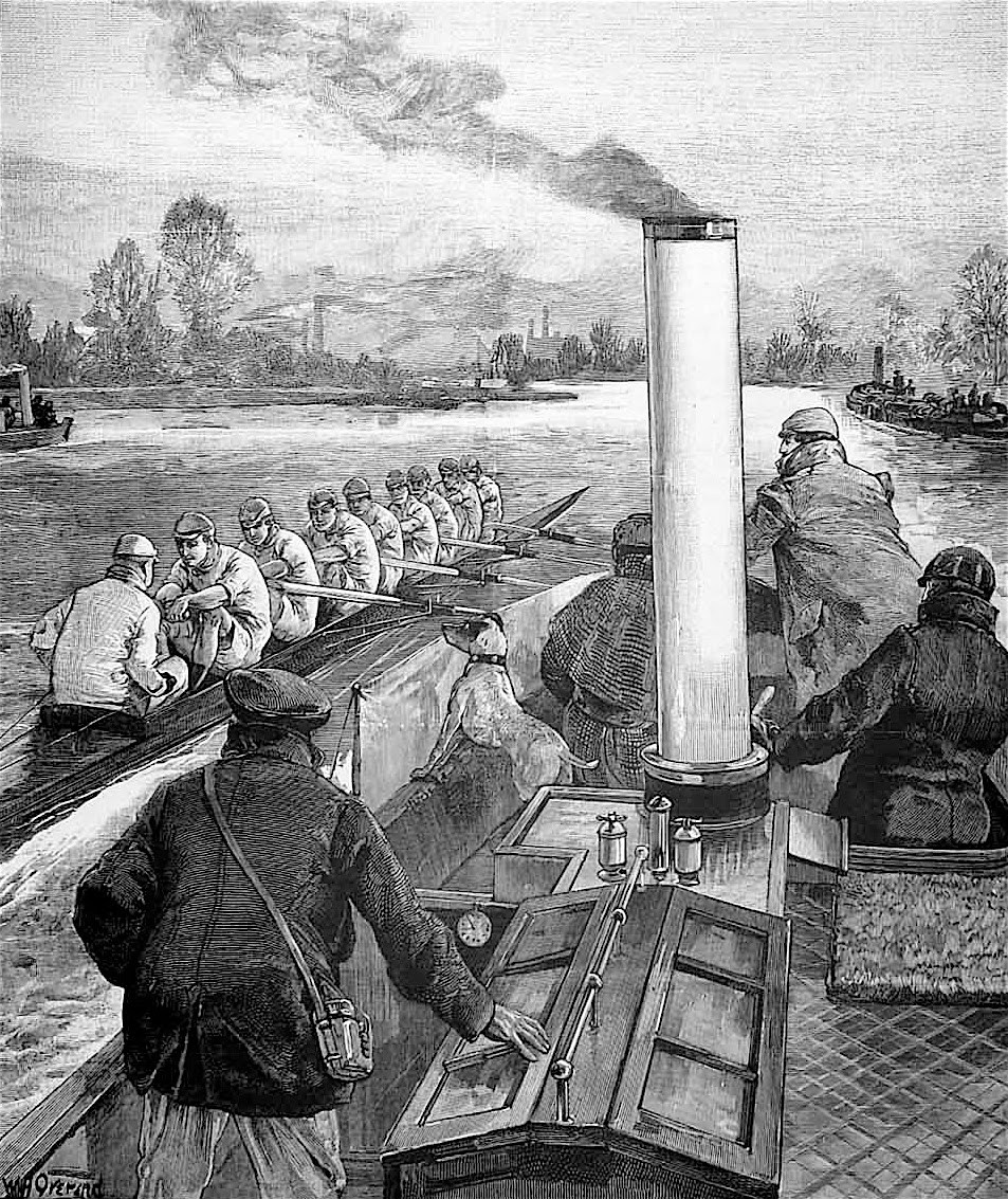 “The Oxford and Cambridge Boat Race: Mr. Muttlebury Coaching the Cambridge Crew from a Steam Launch” - B&W engraving - Illustrated London News - April 9, 1892